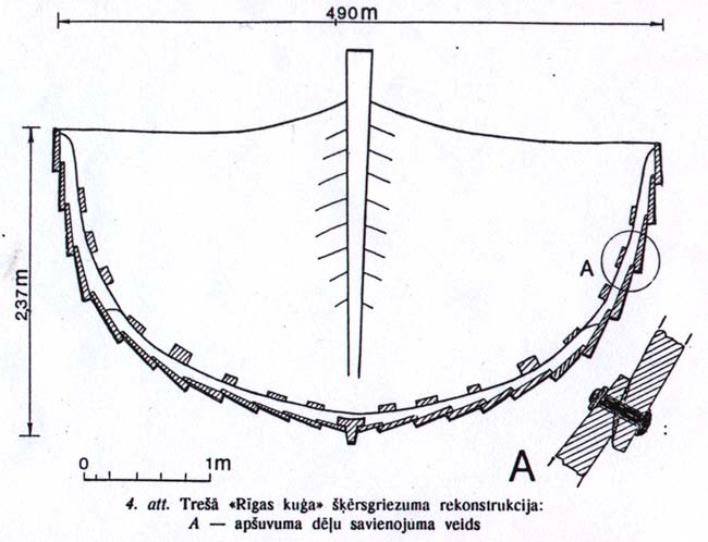 Riga ship cross section